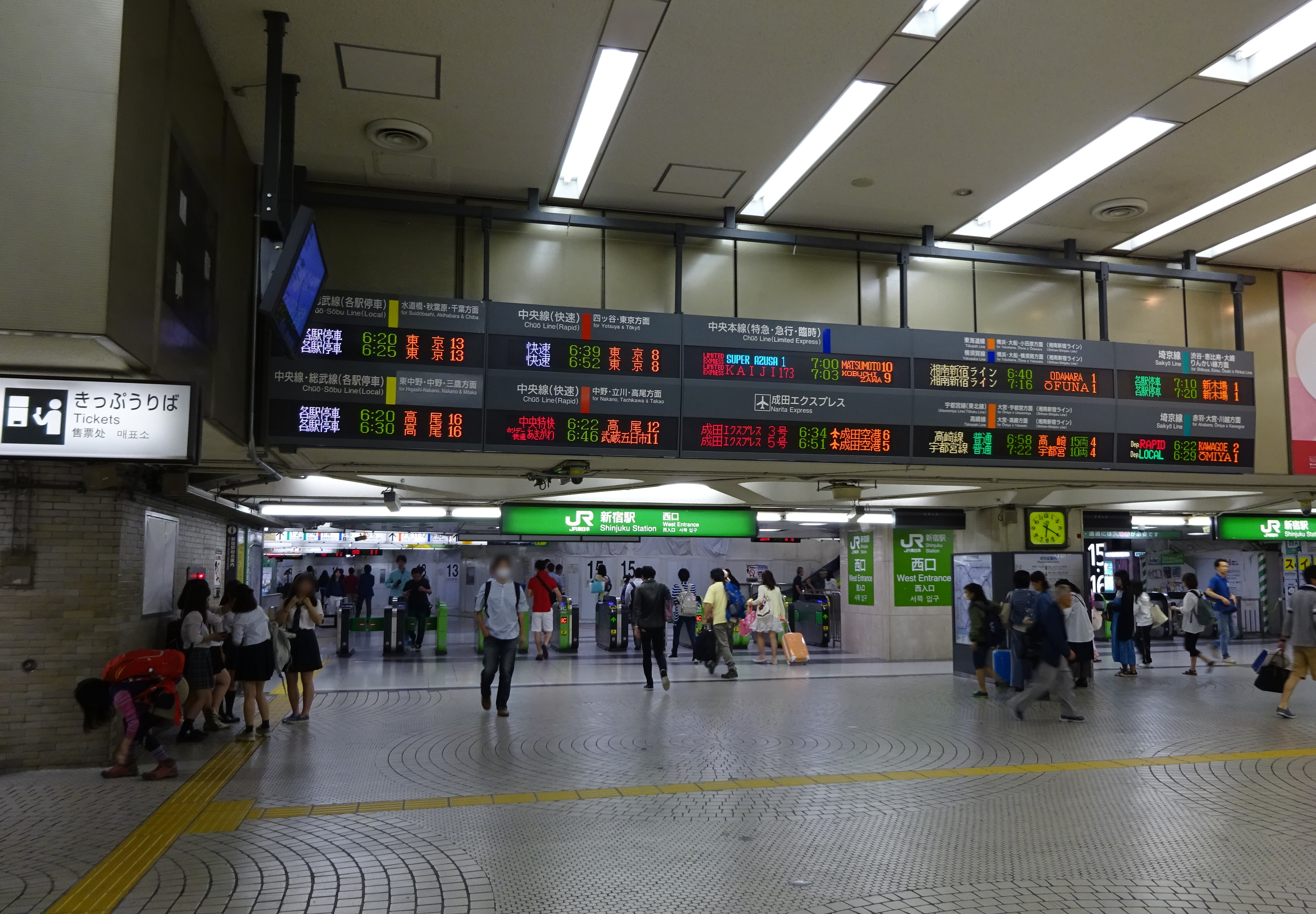 Ticket barriers of Shinjuku Station(West Entrence, JR)